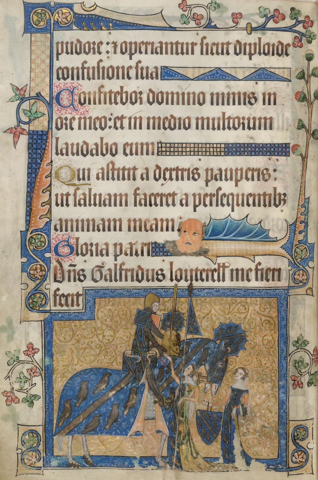 Folio 202v of the Luttrell Psalter, with part of Psalm 108 in Latin (Psalm 109 according to the Masoretic numbering). The miniature in the lower half of the folio shows Sir Geoffrey Luttrell, mounted, assisted by his wife and daughter-in-law. All three are dressed in livery bearing his Coat of Arms, as is the horse. The women's clothing shows the Luttrell livery "impaled" with that of their own families (Sutton and Scrope). The Latin inscription immediately above the illustration reads Dns (= Dominus) Galfridus louterell me fieri fecit â€“ Lord Geoffrey Luttrell had me made â€“ indicating that he was the patron who commissioned the psalter.